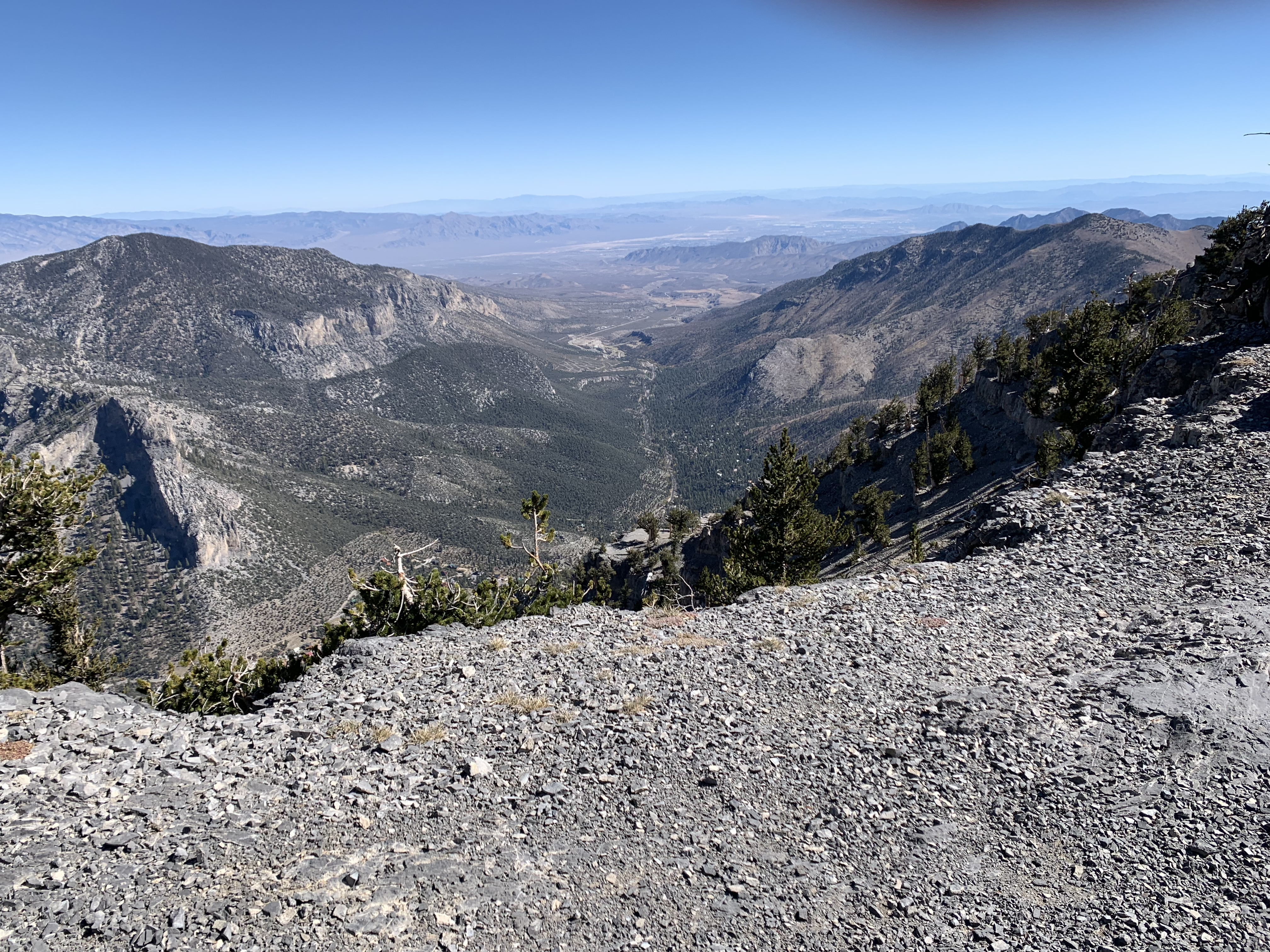 Kyle Canyon, Nevada as seen from South Loop Trail to Charleston Peak